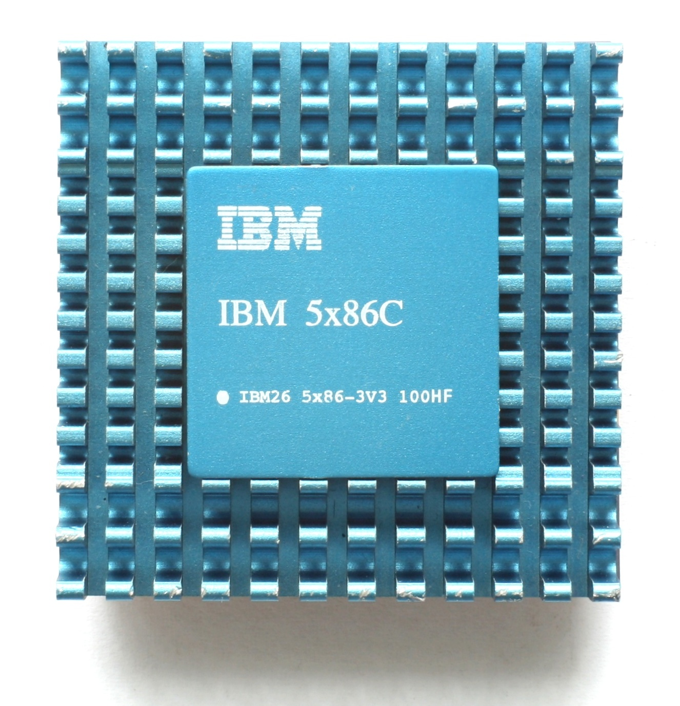 CPU IBM 5x86C with blue factory cooler